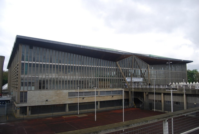 National Sports Centre, Crystal Palace, near to Penge, Bromley, Great Britain.